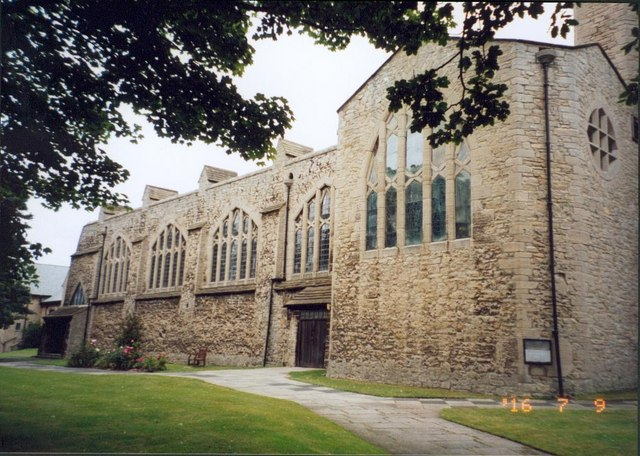 St Andrew's parish church, Roker, Sunderland, Tyne and Wear, seen from the southeast